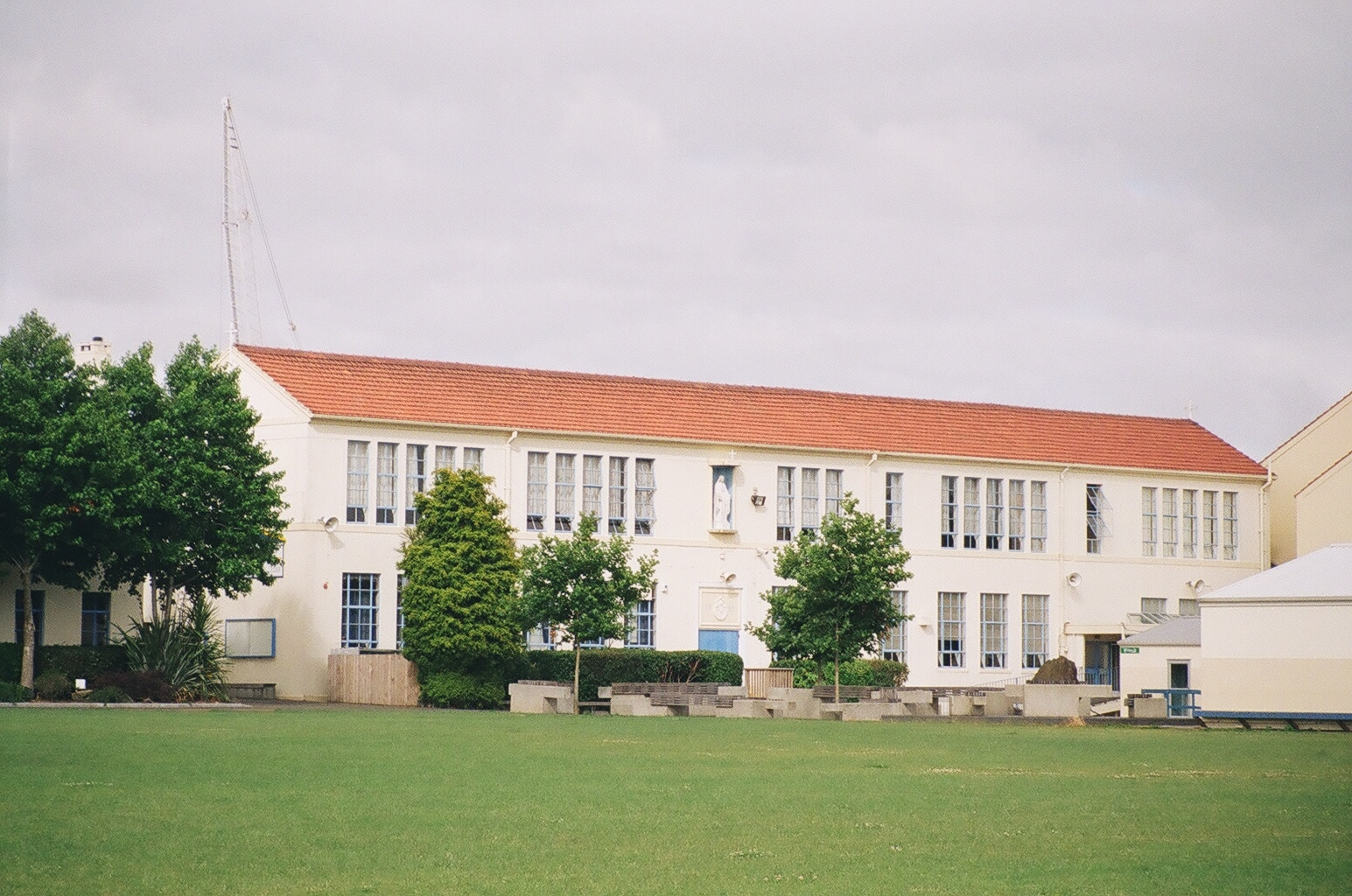 St Peter's College, Auckland: the Brother O'Driscoll Building. The building was opened in 1939 and additions were opened in 1944. It is the original school building of St Peter's College, Auckland.